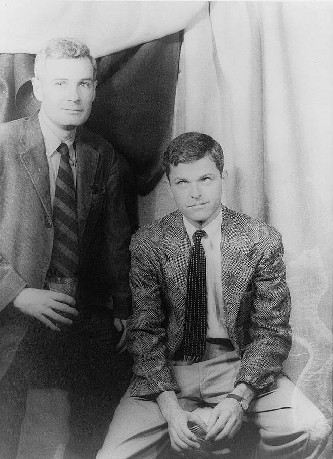 Carl Van Vechten (1880-1964)/LOC cph.3c31415. Donald Windham and Sandy Campbell, 1955